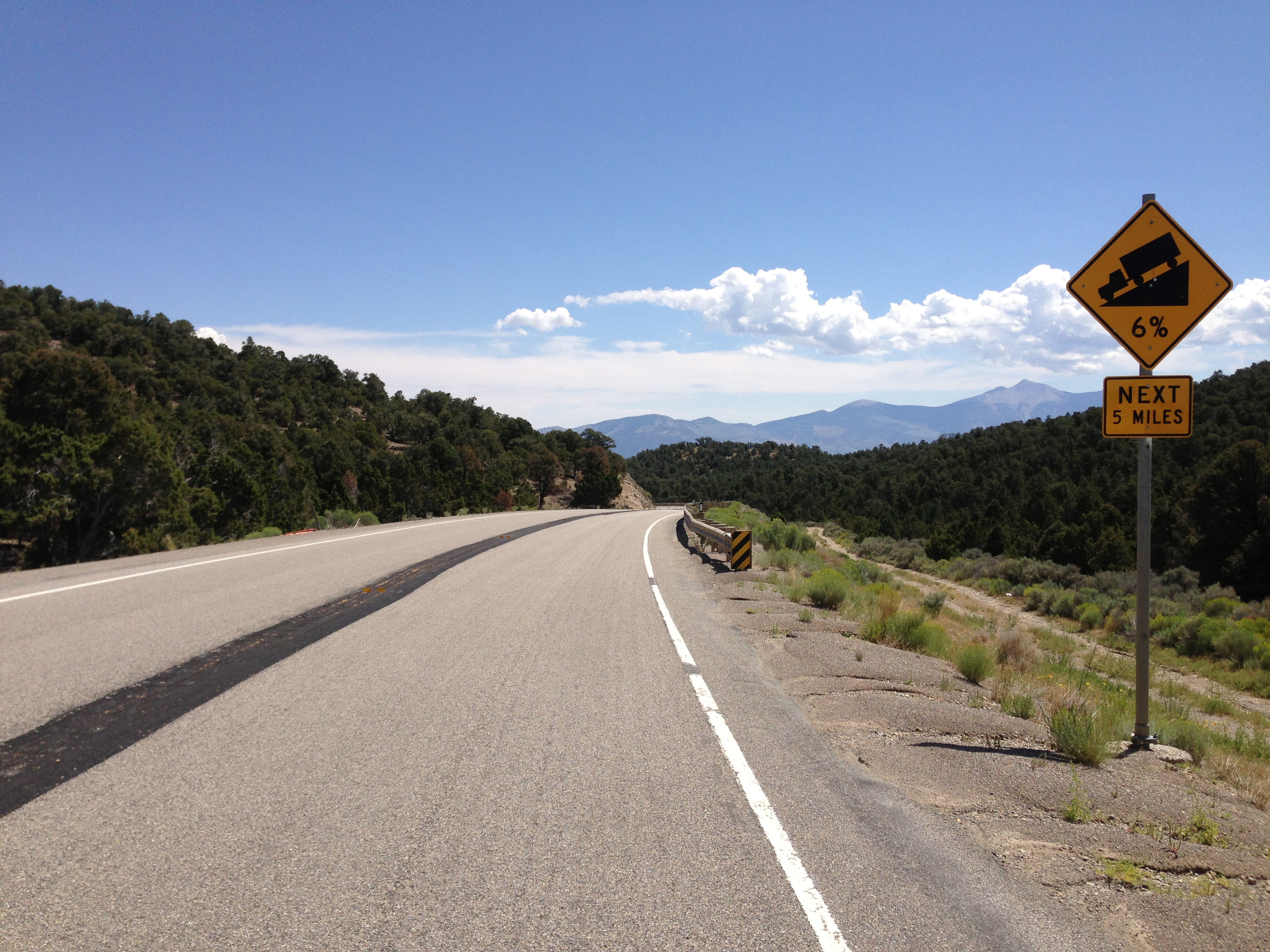 View east on U.S. Routes 6 and 50 and south on U.S. Route 93 about 59.1 miles east of the Nye County line at Connors Pass, Nevada